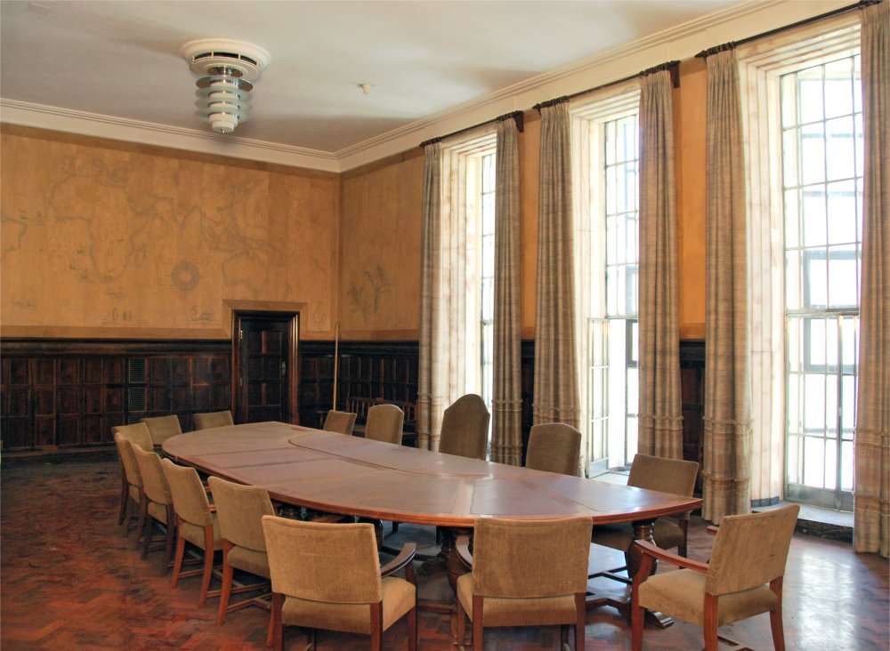 The Directors room in the Mutual Building, Darlings Street, Cape Town